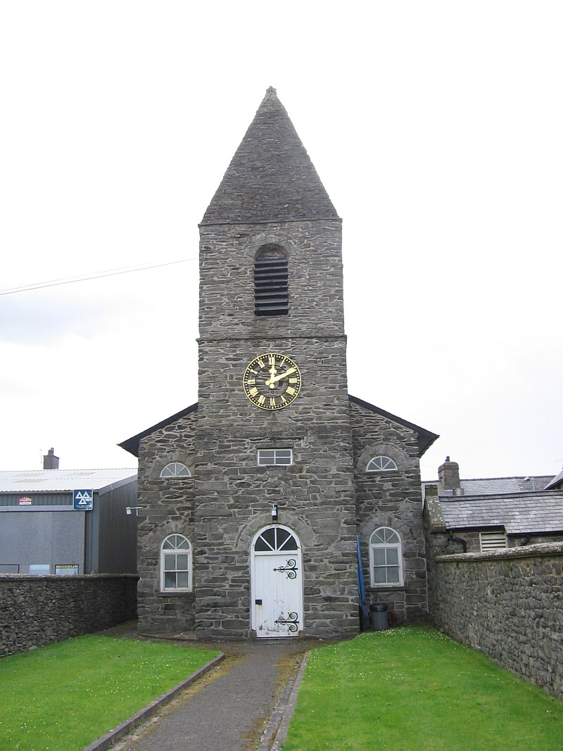 English Chapel, Bala, Wales